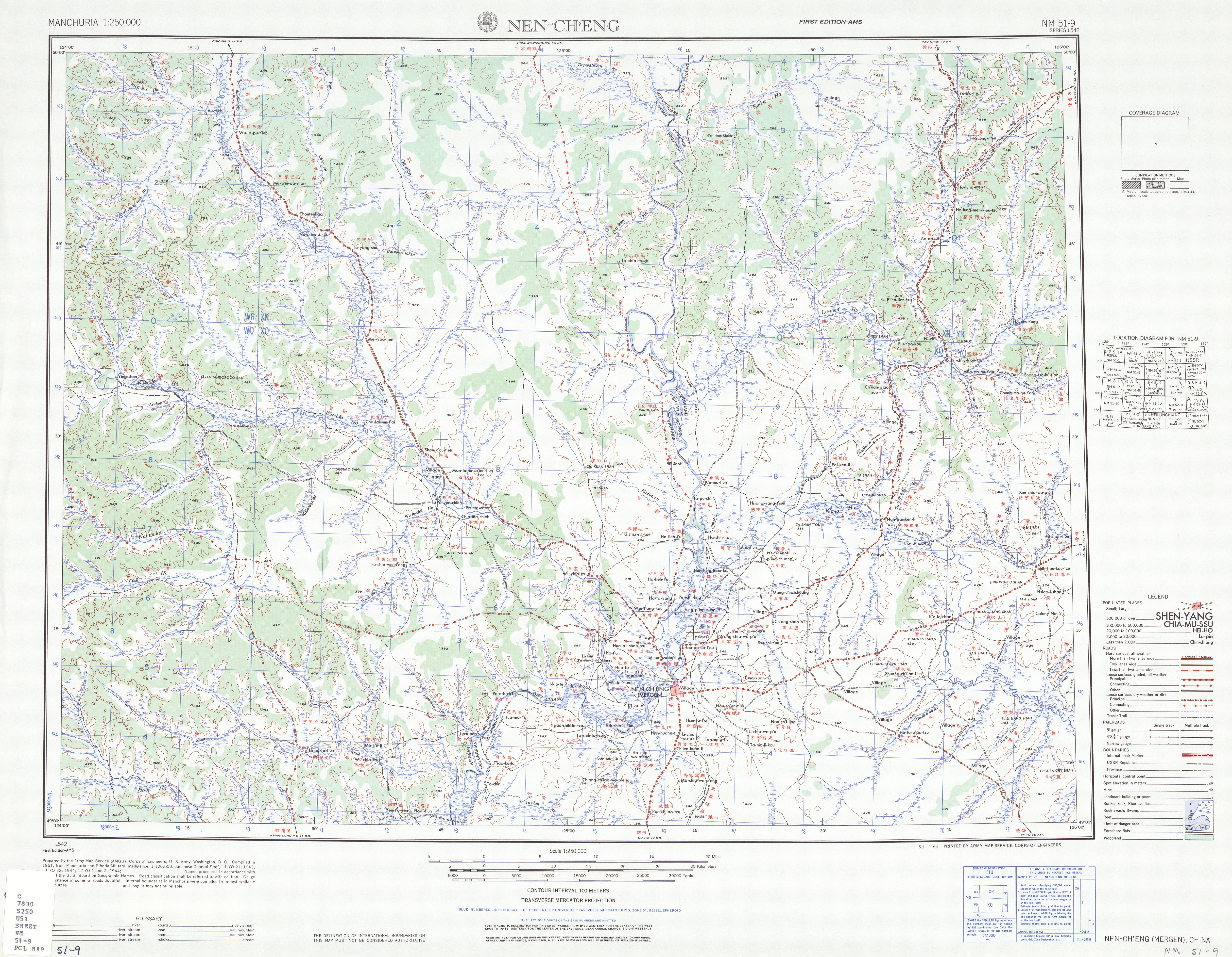 Manchuria AMS Topographic Maps